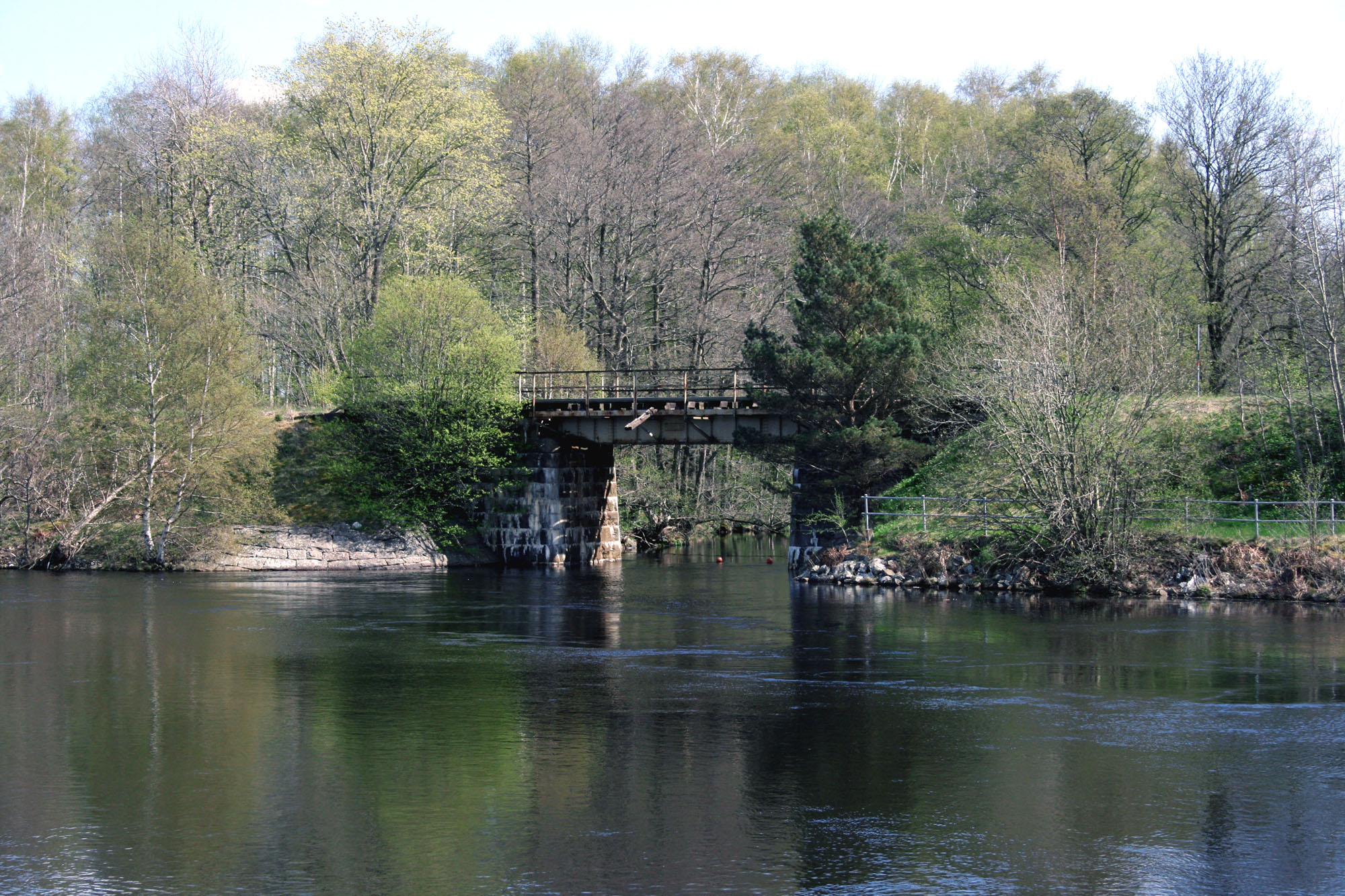 Old railway bridge, Laholm